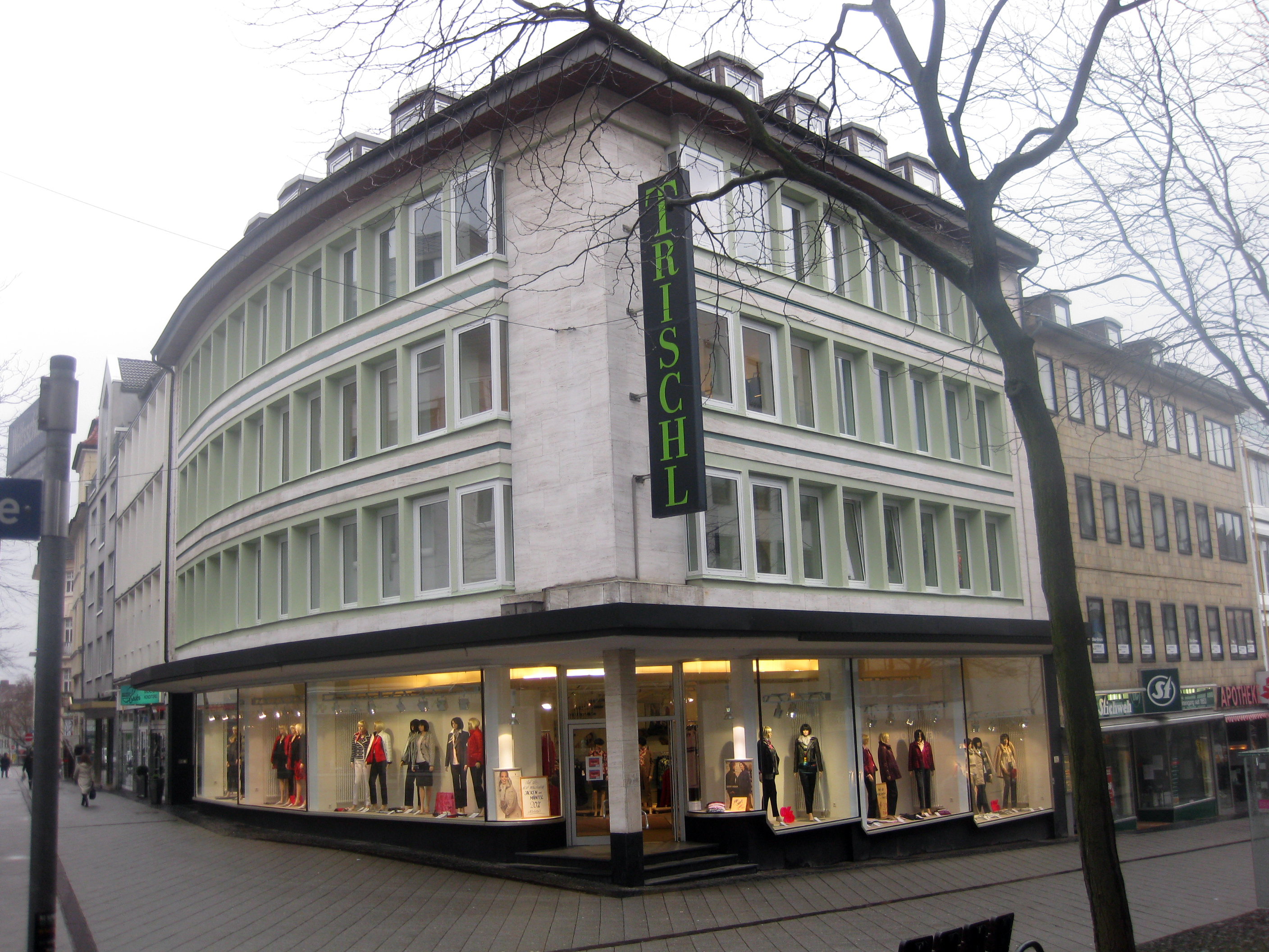 The corner Wolfsschlucht/Wilhelmsstraße in Kassel